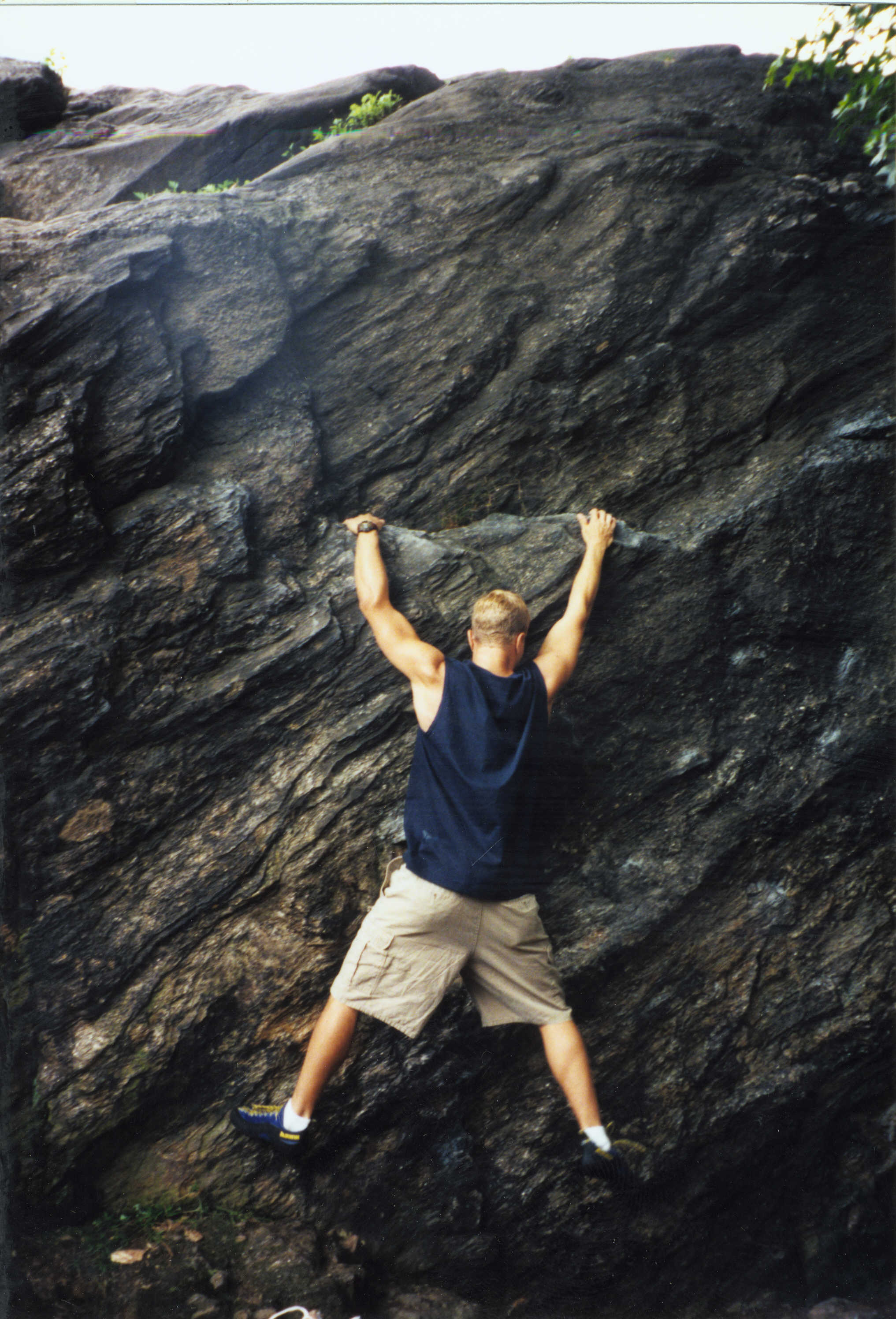 Rat Rock is a popular bouldering site in Central Park, NYC. Will use this photo on a gallery for the wikipedia article about Rat Rock.